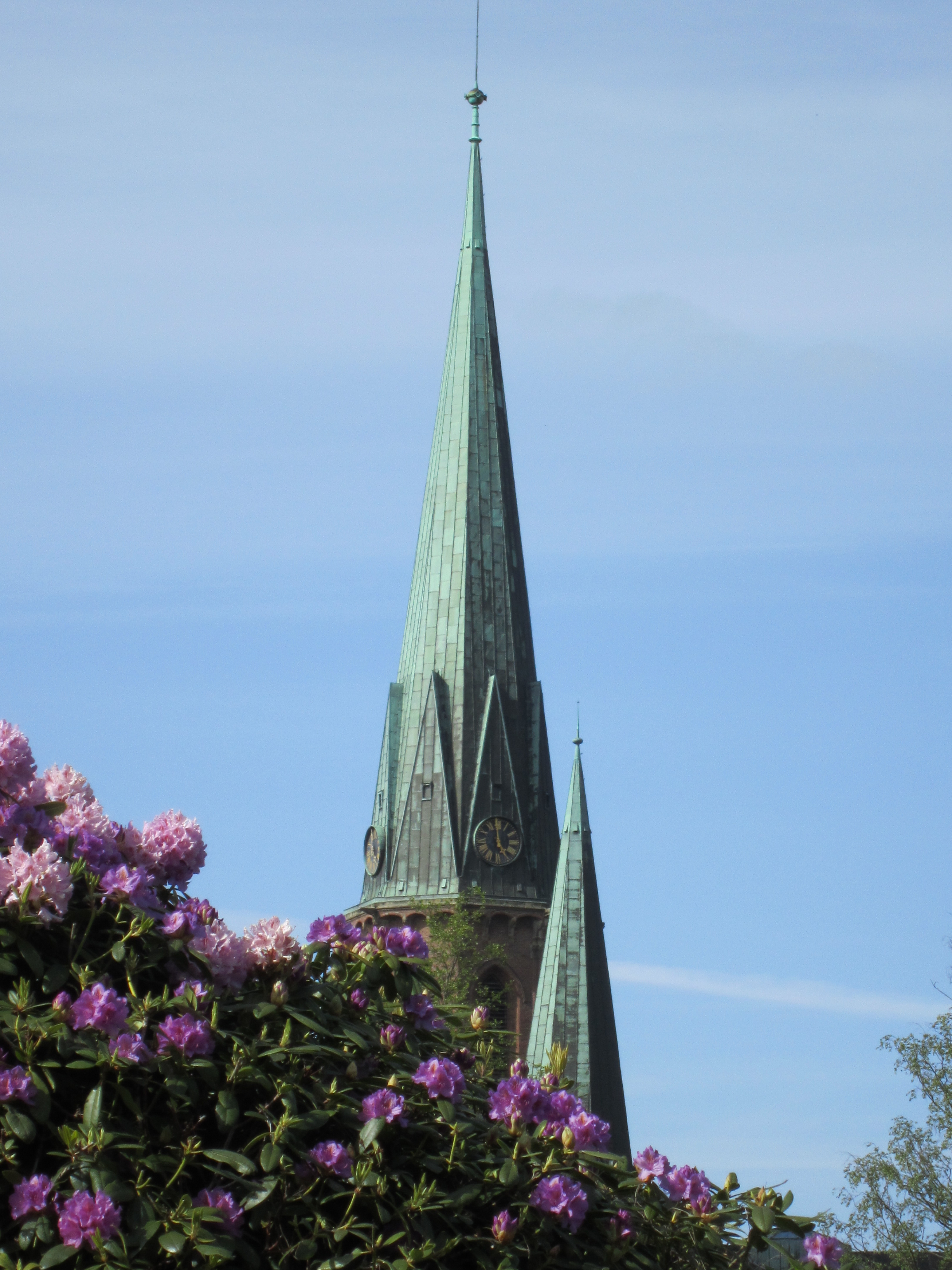 St. Lamberti church behind rhododendrons in Schlossgarten Oldenburg